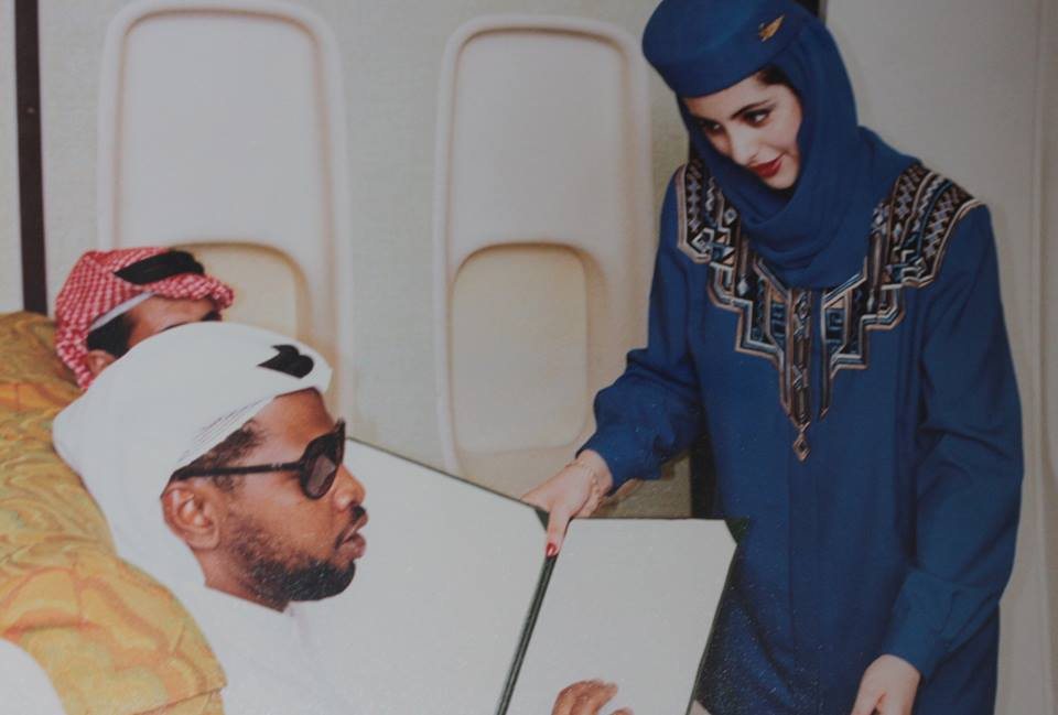 هذه الصورة لفكرة وجبة الراكب الكفيف التي فازت بجائزة اون بورد سيرفس مجازين في العام 1993م كأحسن صورة إعلانية للخدمة على الطائرات والتي منها أكتشفت ان بامكان المكفوفين العمل في الحقل الإعلاني بكفاءة عالية كذلك إن الصورة لفكرة وجبة الراكب الكفيف التي قدمتها للخطوط السعودية في آواخر أيام عملي فيها وفازت بجائزة الشرف الكبرى للإتحاد العالمي للتمويل 1992م من بين 600 شركة طيران وفنادق وشركات تموين أخرى حيث أنها المرة الأولى التي تقدم ضمنها فكرة تجارية ذات مسؤولية إجتماعية وقابلة للتطبيق في شتى مناح الخدمات الإجتماعية وفي نفس العام 1992 فازت الفكرة بجائزة IFSA رابطة إتحاد الخدمات الجوية بالولايات المتحدة الأمريكية وتلك ذكرى لا تنسى بالنسبة لي فقد تزامن ذلك الإنجاز بإحالتي الى التقاعد المبكر من عملي كمدرب للخدمة الجوية من الخطوط السعودية في 15 أكتوبر 1992م للذي للمفارقة كان اليوم العالمي للعصا البيضاء الذي يحتفل به العالم بحقوق المكفوفين بصرياً